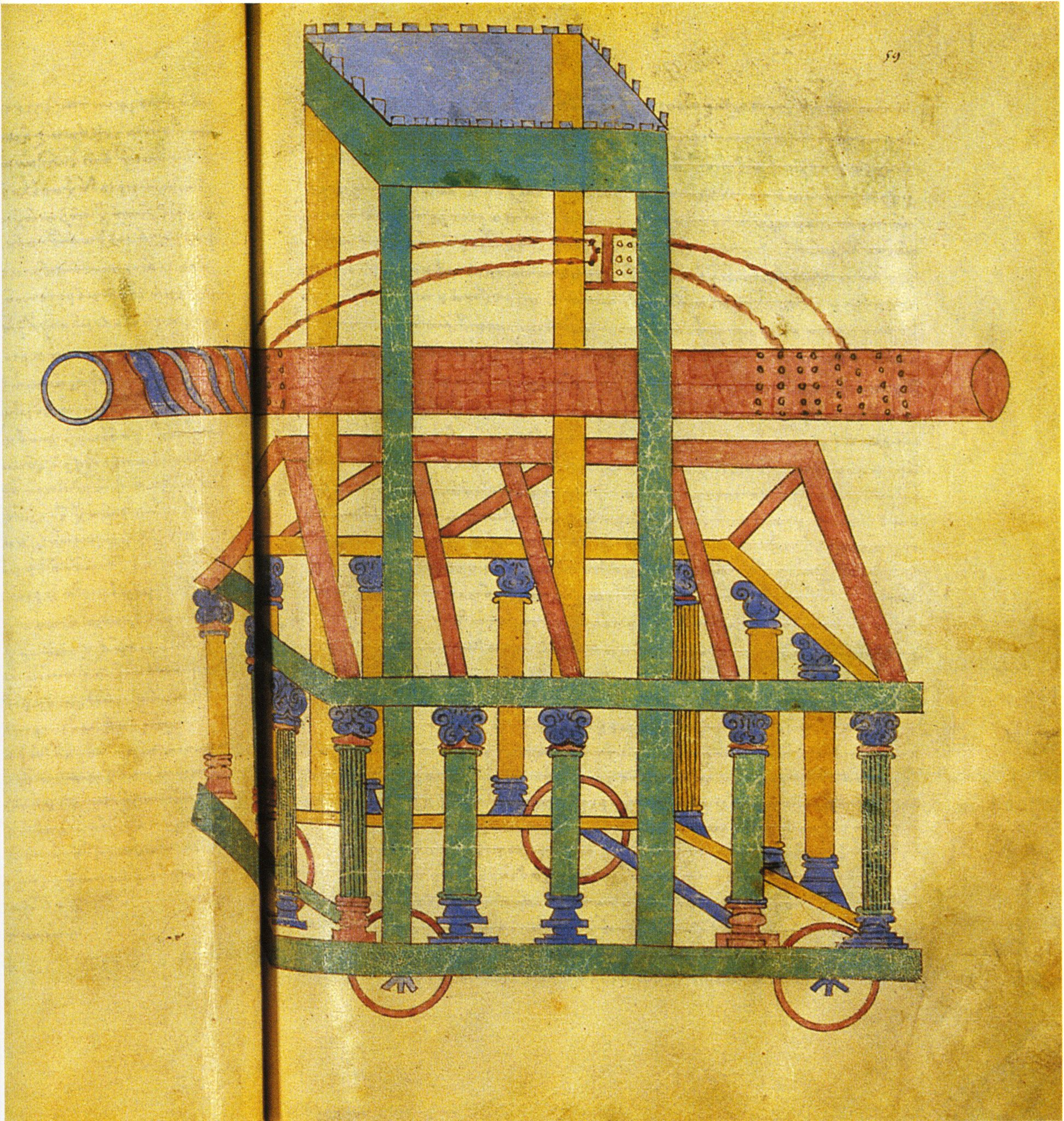 Athenaeus Mechanicus, Mechanica: Illustration showing a battering ram in ms. Paris, Bibliothèque Nationale, Graec. 2442, fol. 59v.